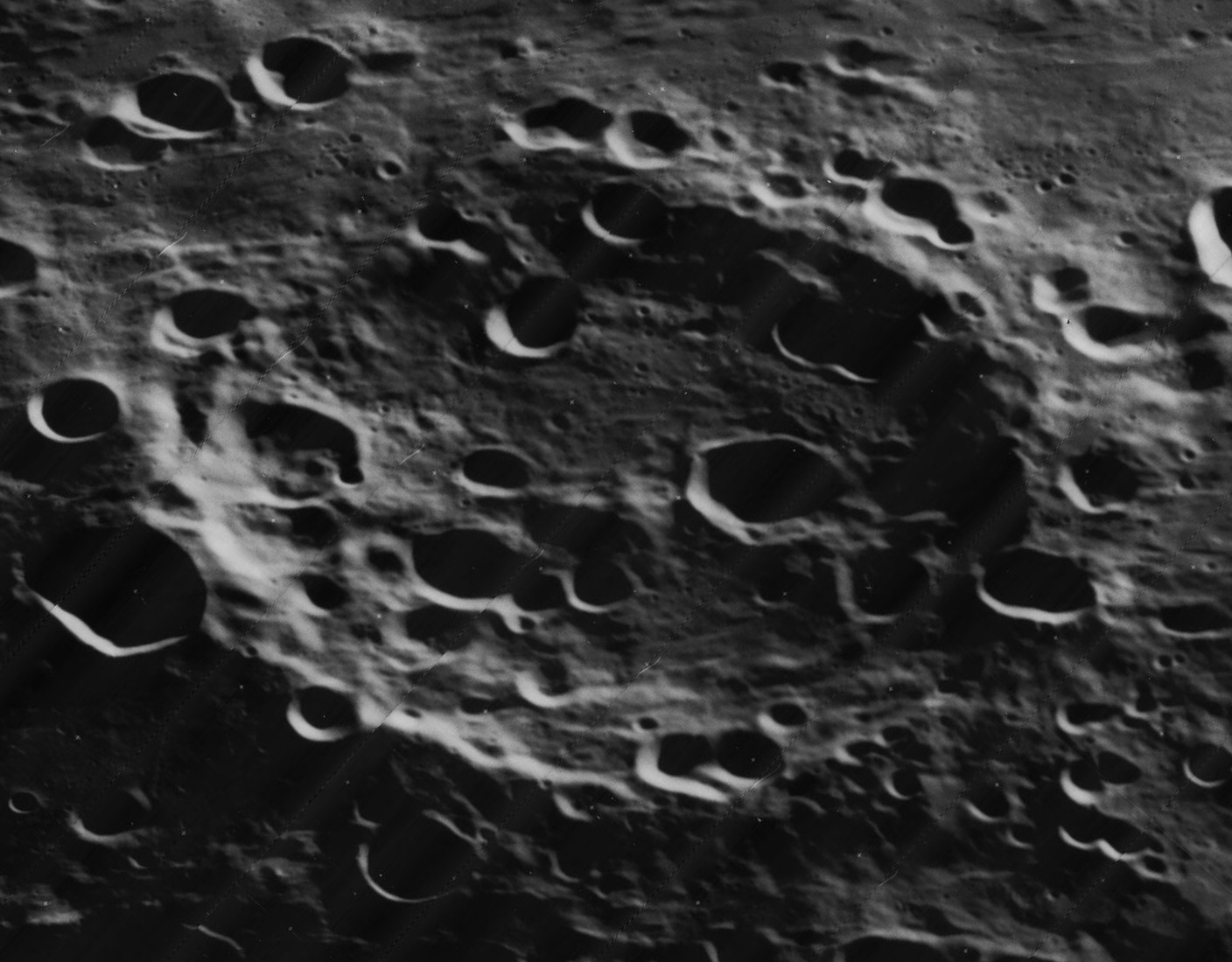 Oblique view of Michelson crater, on the far side of the moon.